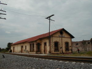 Apaeso el Grande railway station, Mexico. Picture taken in the city.